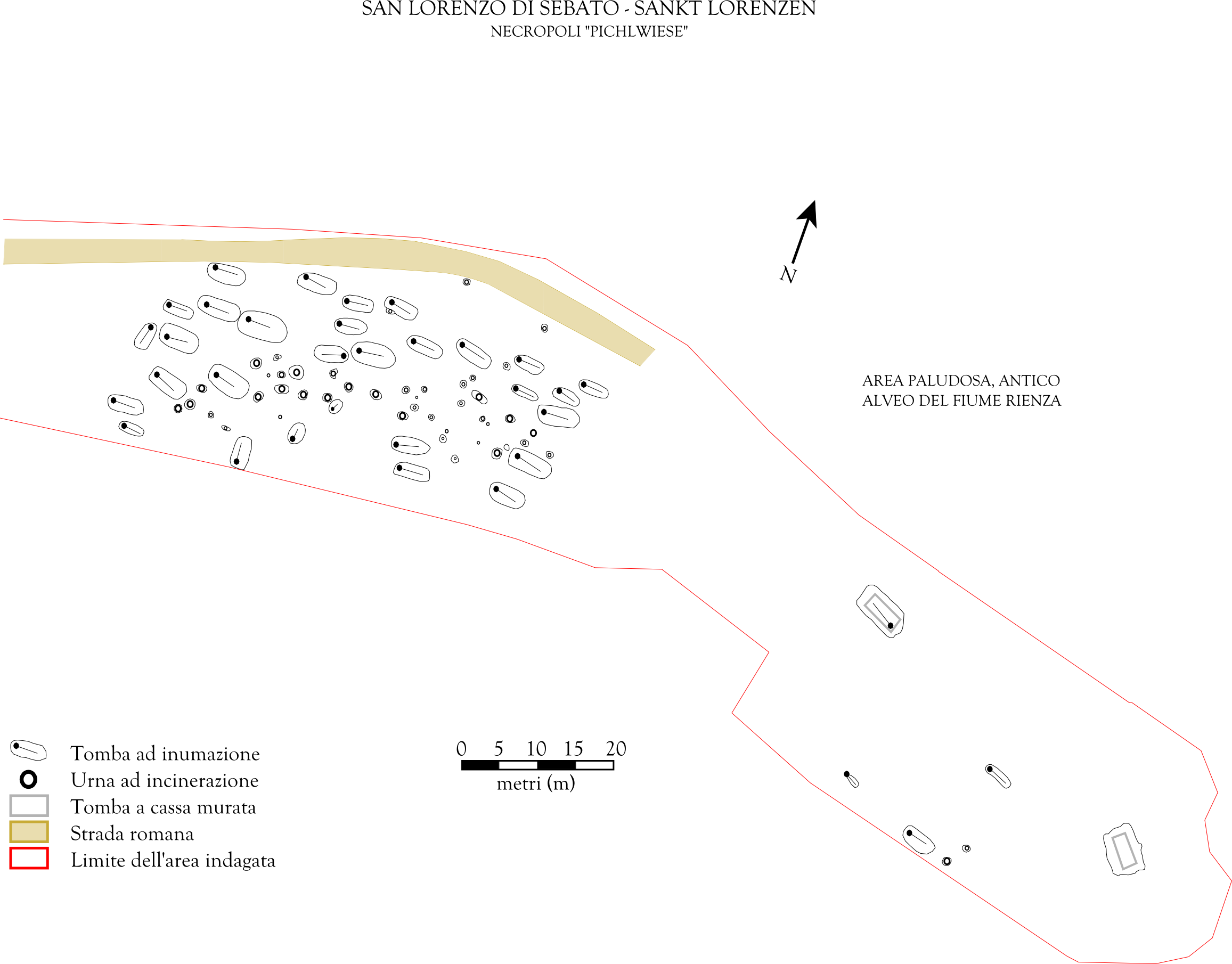 Plan of the roman necropolis of Sebatum (San Lorenzo di Sebato/Sankt Lorenzen, South Tirol, Italy)